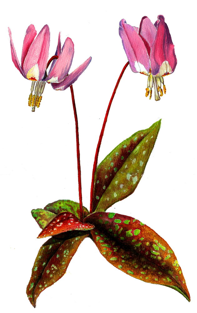 Erythronium sajanense drawn by V.S. Stepanov and N.V. Stepanov for Red Book of Krasnoyarsk Region, 2012.